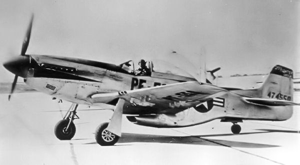 Postwar P-51D of the 20th Fighter Group - Shaw AFB, SC Source: United States Air Force Historical Research Agency - Maxwell AFB, Alabama